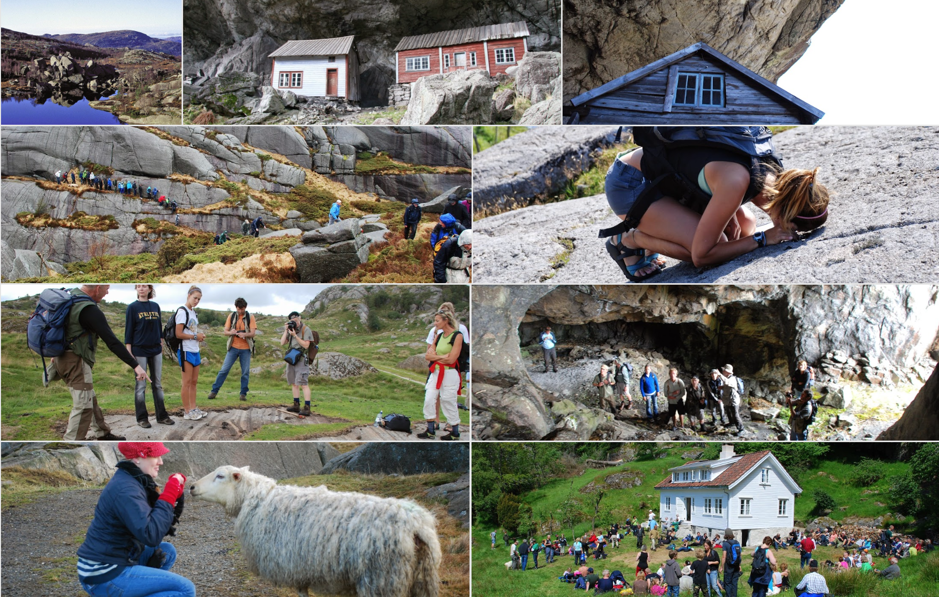 Different geological locations to visit in Magma Geopark